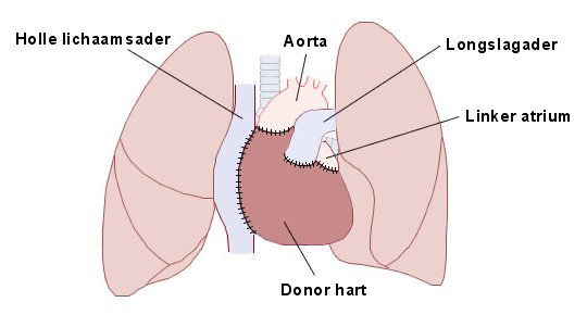 Summary Self-produced image using fireworks MX (Based on image seen in textbook), for use on Heart transplantation article.D Dinneen 14:56, 12 November 2006 (UTC)